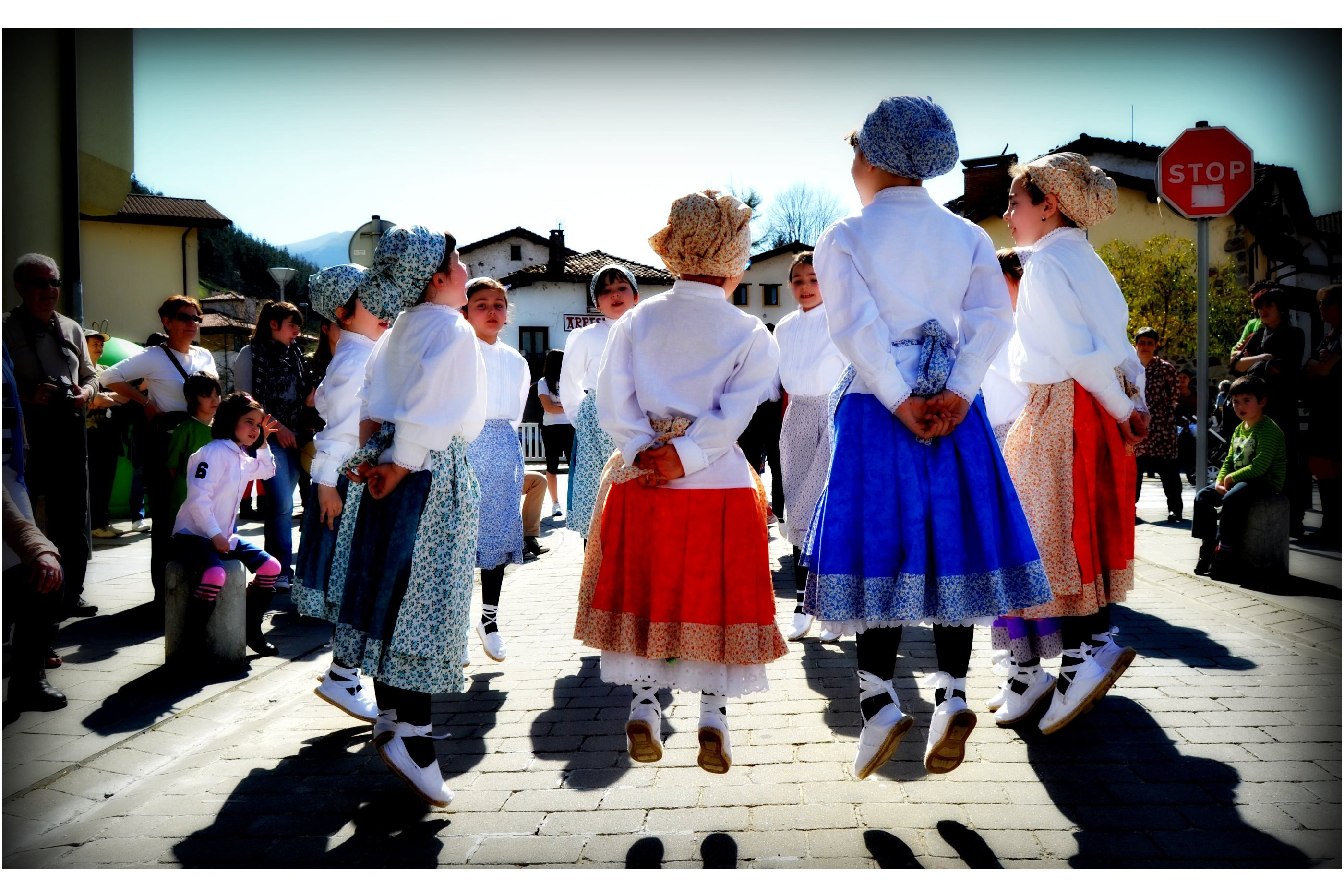 Zazpi jauzi basque dance in Zaldibia